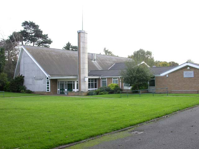 A meetinghouse of The Church of Jesus Christ of Latter-day Saints, Duston, Northampton. A notice at the entrance on Harlestone Road (A428) states that visitors are welcome.